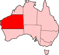 A map of Australia, with the Pilbara Regiment highlighted in red.